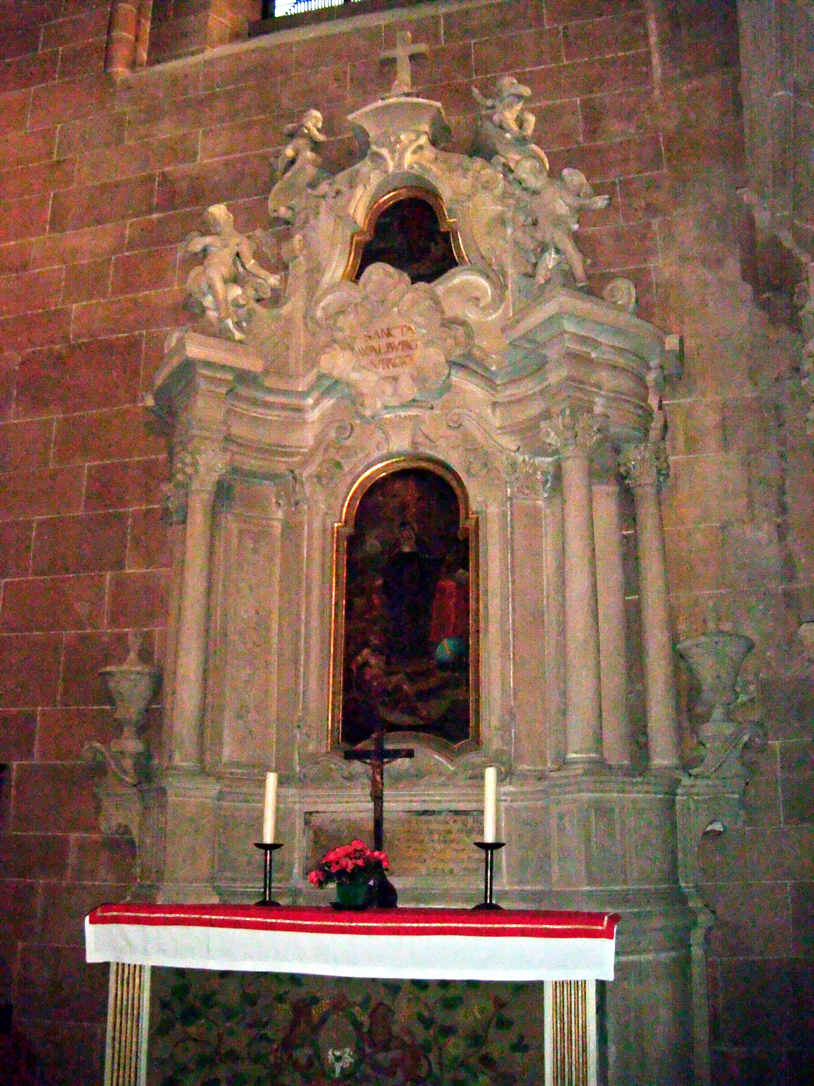 Walburgis Altar, Wormser Dom, 1738, gestiftet von Domvikar Martin Augsthaler